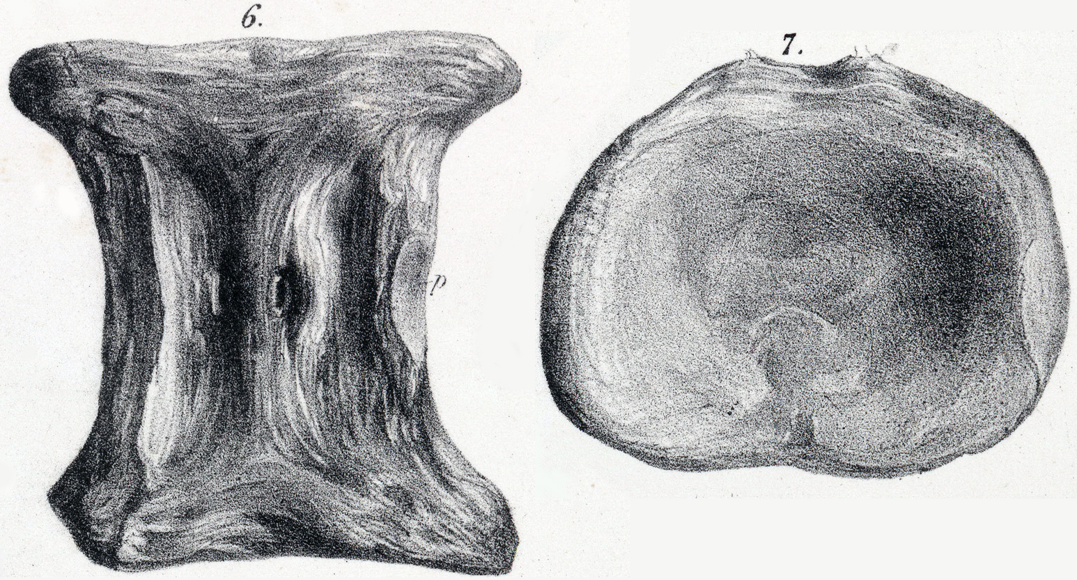 Fig. 6. Under view of the body of a cervical vertebra of Plesiosaurus constrictus. Fig. 7. End view of the same vertebra. From the Steyning Chalk-pit, Sussex.